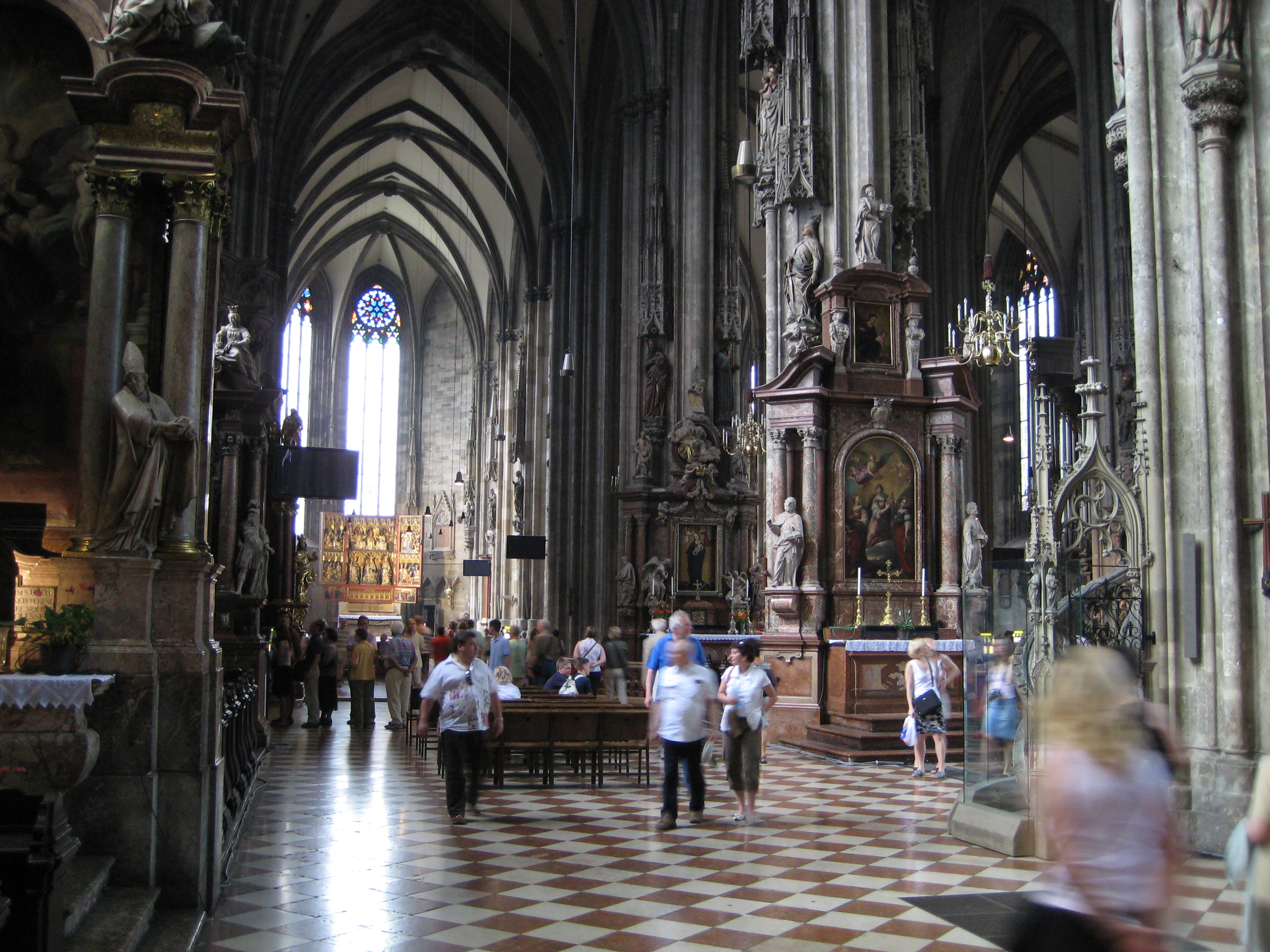 St. Stephen's Cathedral, Vienna, side aisle